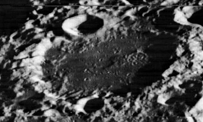 Oblique view of Oresme crater, on the far side of the moon, facing roughly south.